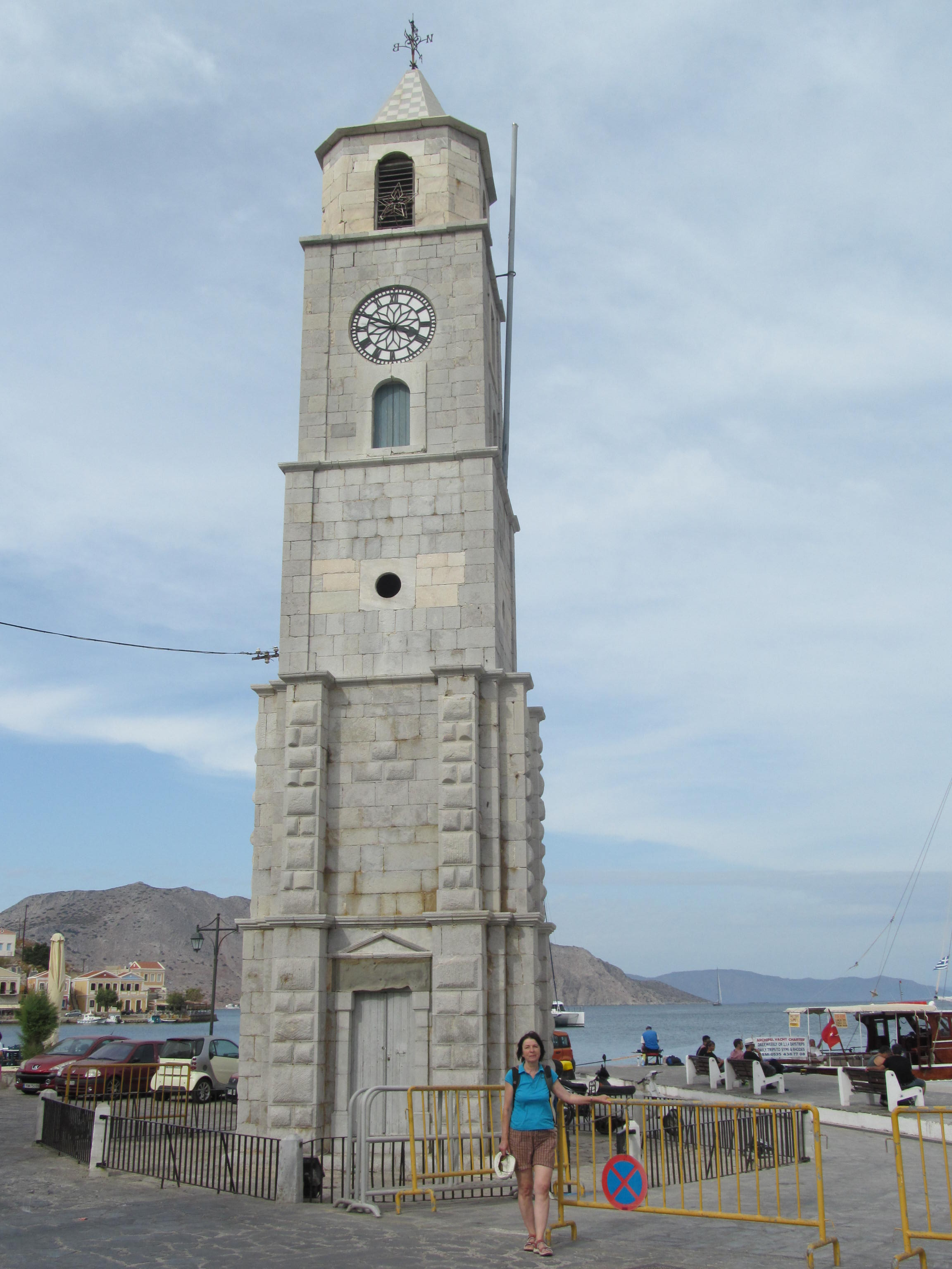 Clock tower from 1881 in Symi